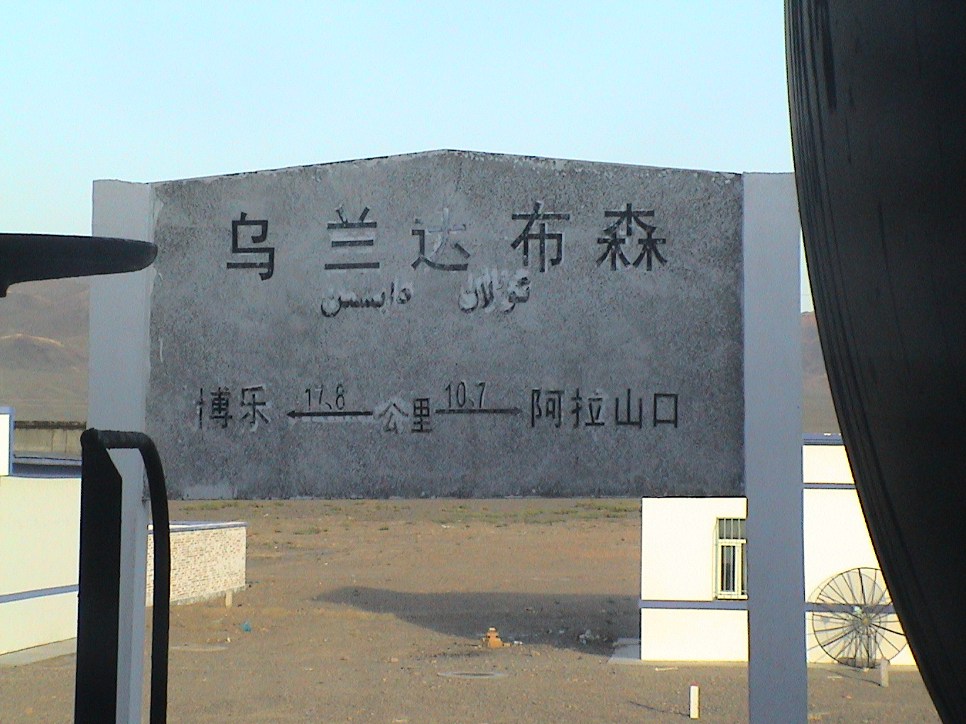 Wulandabusen railway station This image was taken by User:Yaohua2000 at 2006-04-26 00:29:37 UTC.